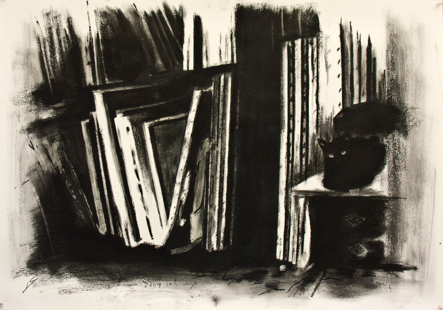 My Studio with Cat by Hagit Shahal